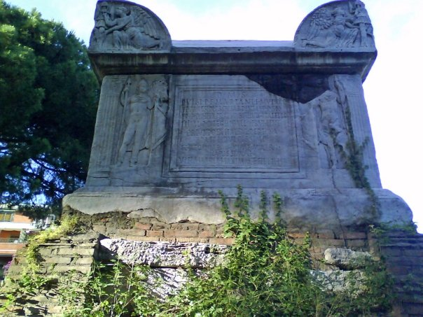 The tombe of Publio Vibio Mariano, commonly called the Tombe of Nero